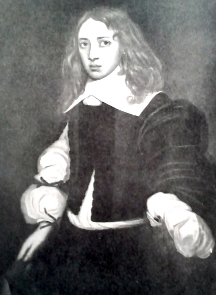 Agent, industrialist and ironmonger from Wallonia, operating in Sweden during the 1600s.